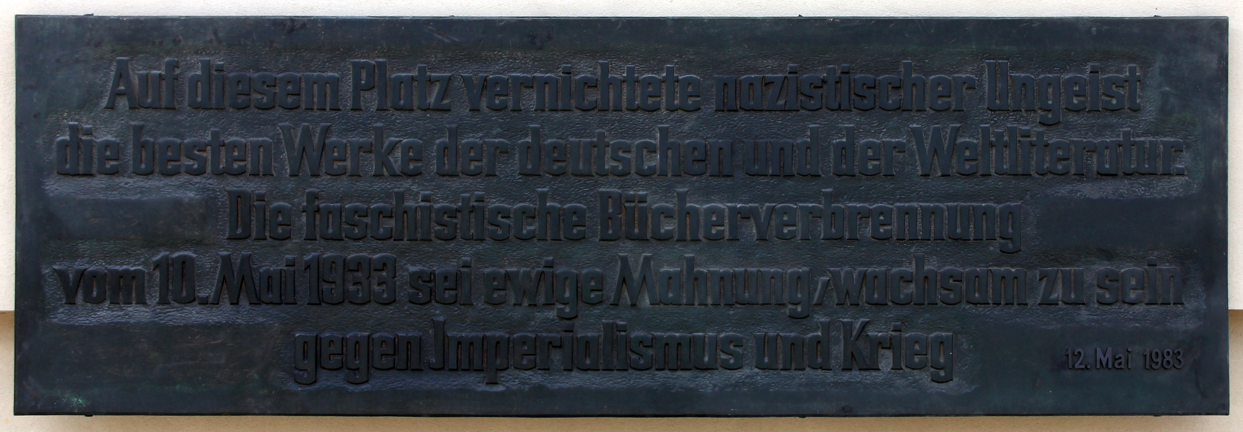 Memorial plaque, Bücherverbrennung 1933, Bebelplatz, Berlin-Mitte, Germany